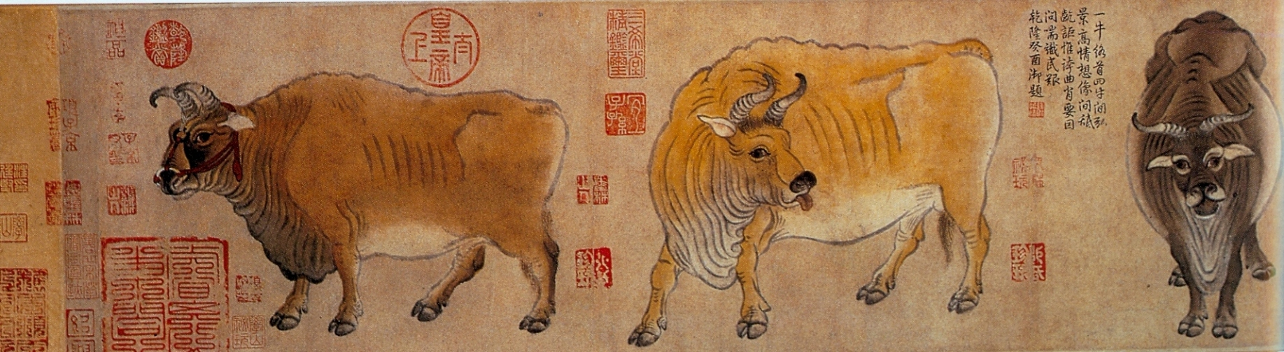 The Five Oxes (Wu niu tu), ink and colours on silk,20,8 x 136,8cm. Palace Museum, Beijing.